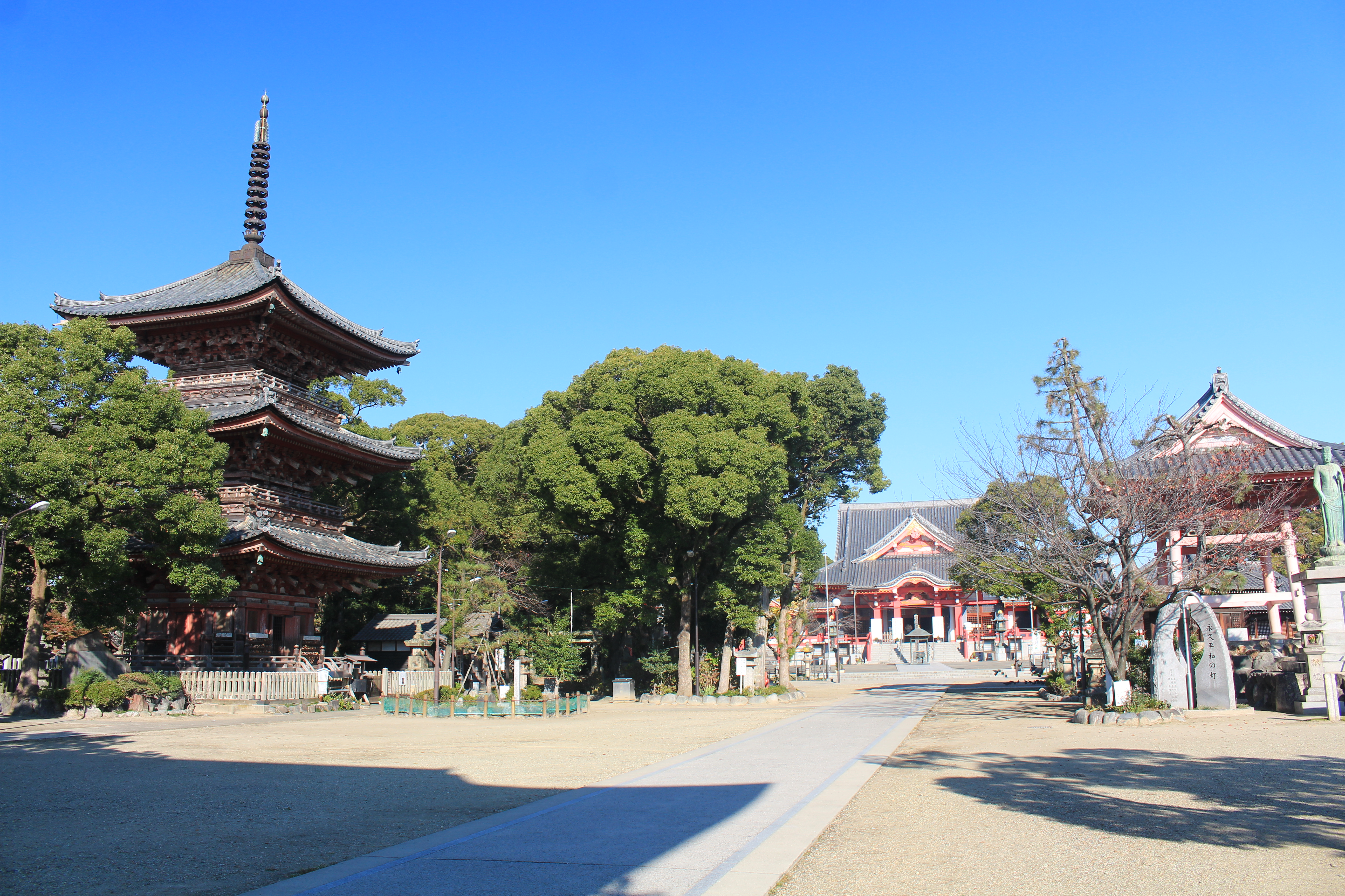 Jimokuji in Ama, Aichi prefcture, Japan.